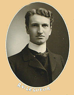 Date: 1903 Photographer: Park Bros. Reference code: P437